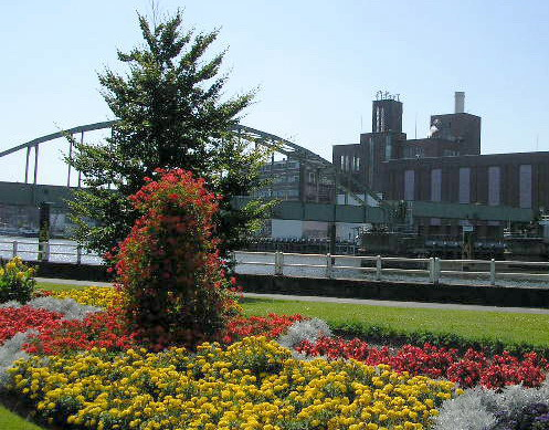 View of river Maas and railway bridge, Maastricht, the Netherlands